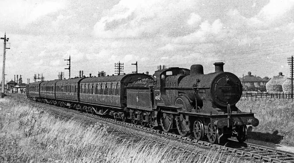 Stopping train on Midland line at Walton. View NW, towards the crossing at Walton Station, north of Peterborough; ex-Midland line from Leicester via Melton Mowbray to Peterborough East. Here the line is running for several miles parallel with the East Coast Main Line, which is behind the train and had no station here. Walton LMS station was closed 7/12/53, but the line remains. This stopping train is headed by LMS 2P 4-4-0 No. 40542.